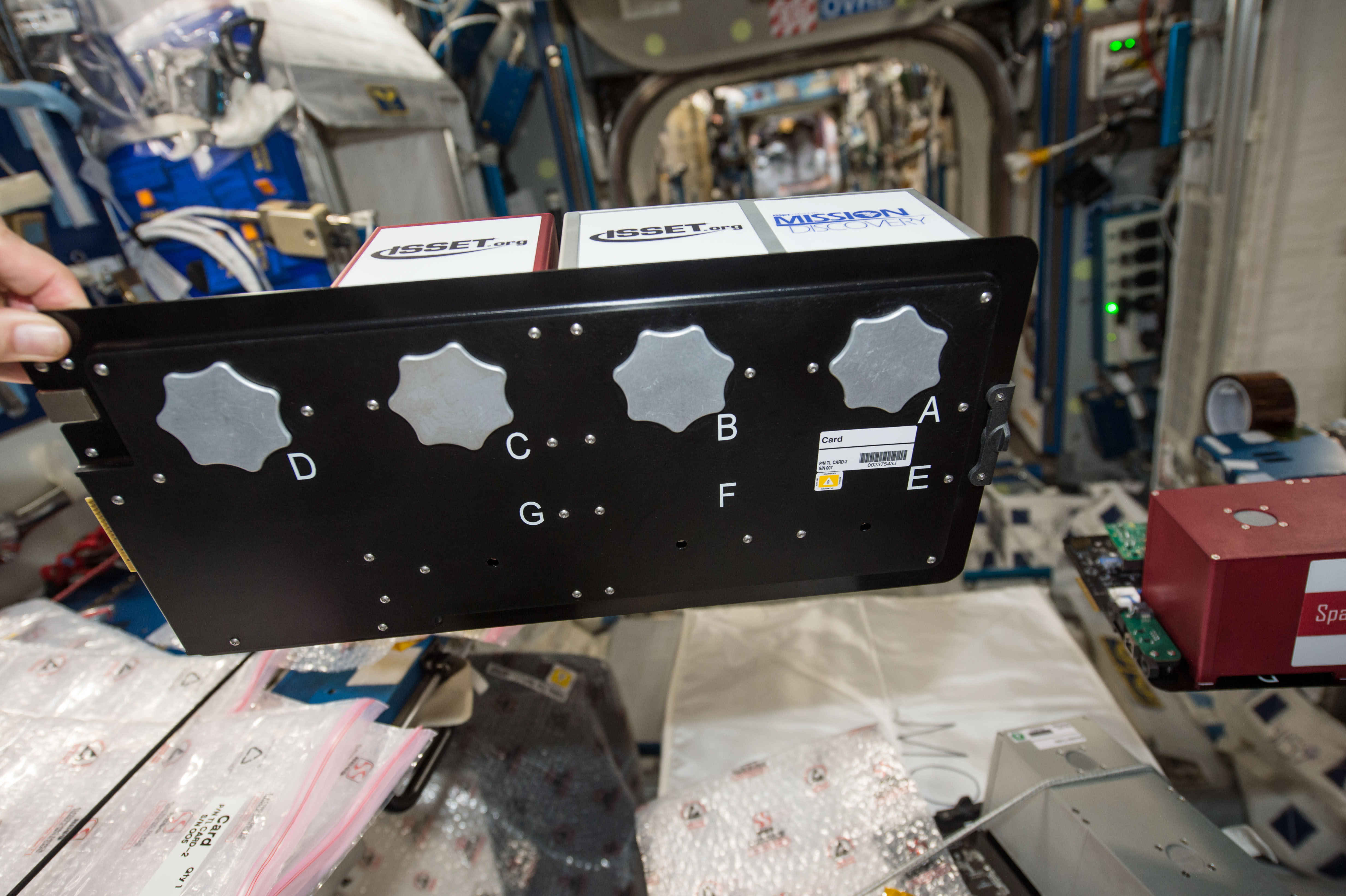 Photographic documentation taken during installation of Space Tango MultiLab Locker (TangoLab-2). TangoLab-1 is a reconfigurable general research facility designed for microgravity research and development and pilot manufacturing aboard the ISS. TangoLab provides a standardized platform and open architecture for experimental modules called CubeLabs. CubeLab modules may be developed for use in 3-dimensional tissue and cell cultures.